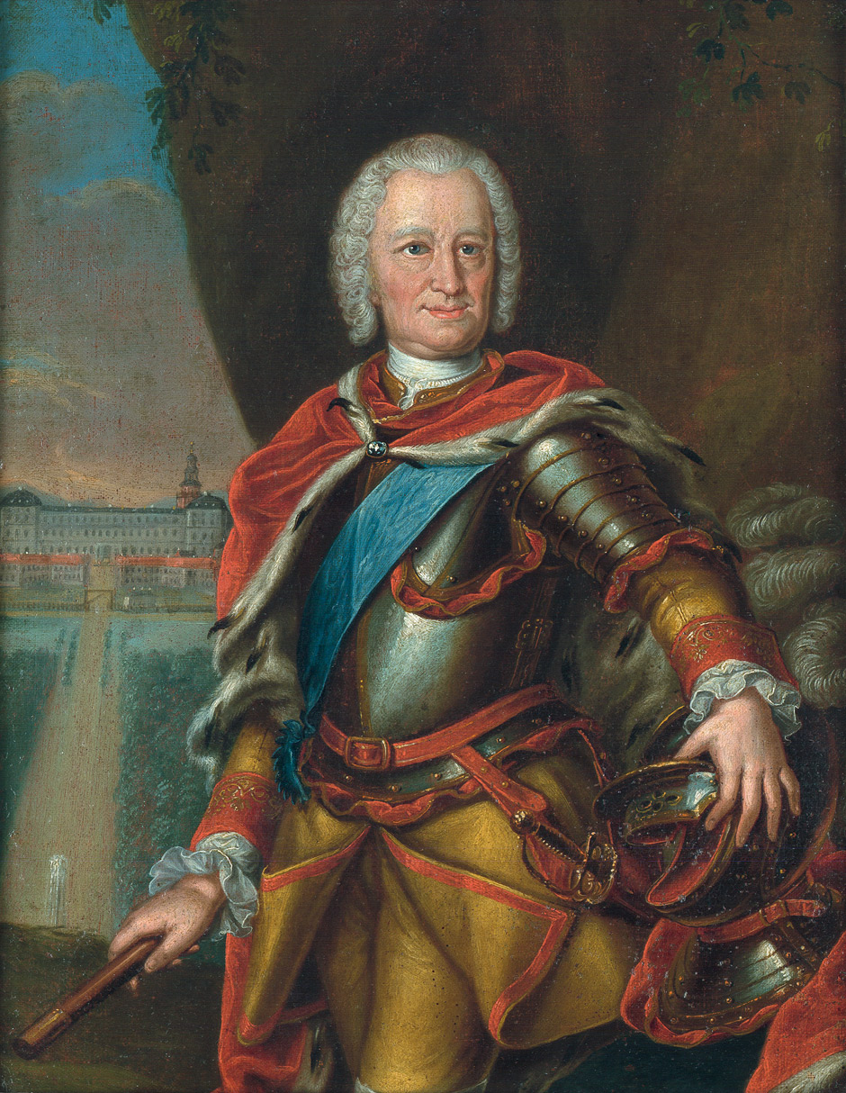 Portrait of Ernest Louis, Landgrave of Hesse-Darmstadt (1667-1739)